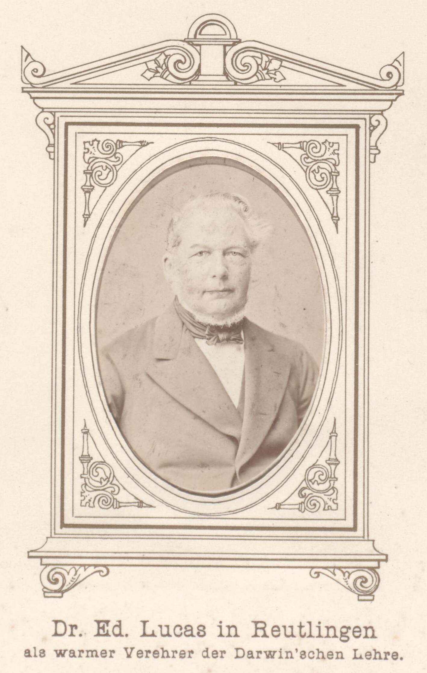 Plate 03 Photograph album of German and Austrian scientists. Jena: Dr. Ed. Lucas, Reutlingen